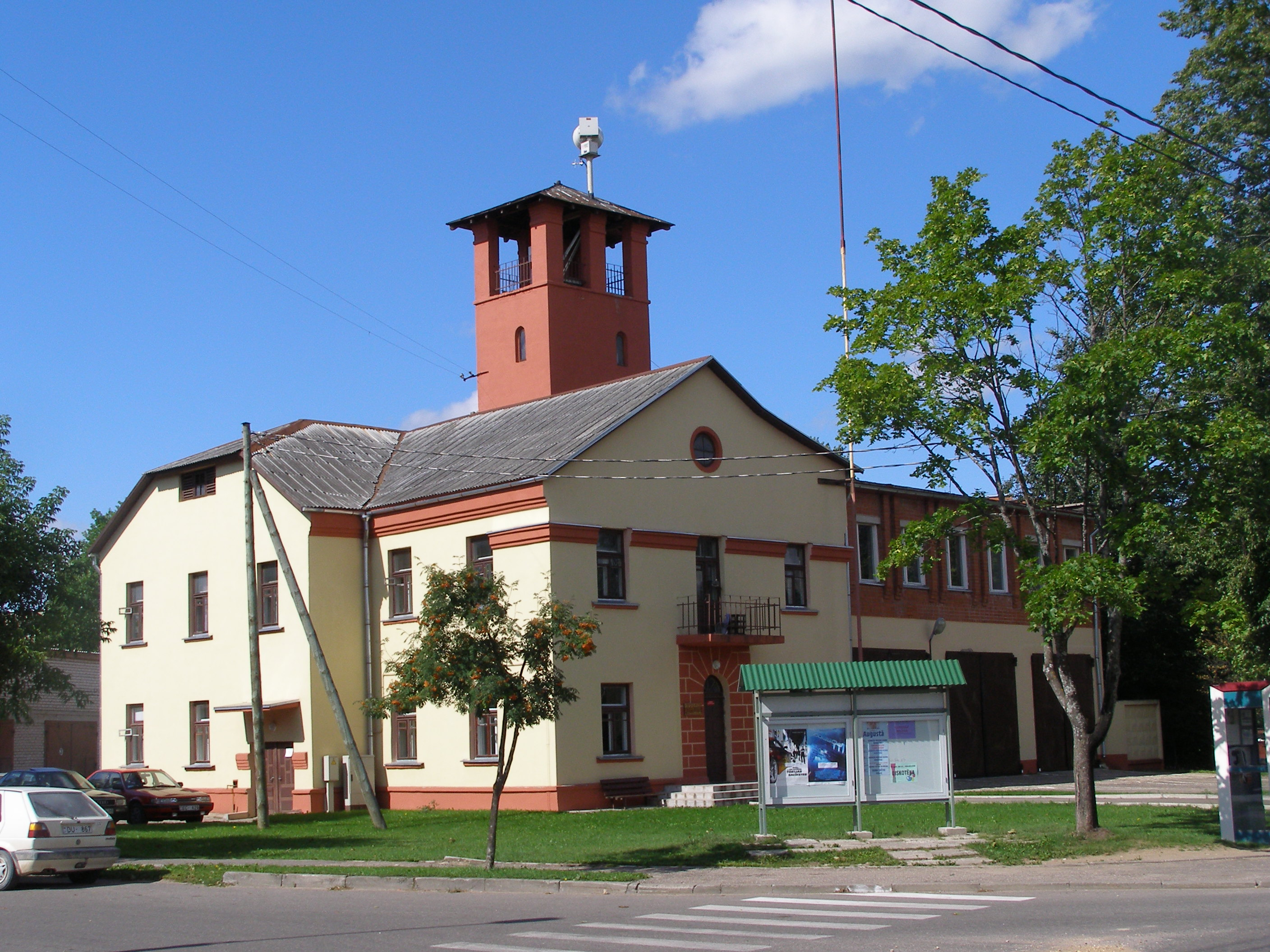 Fire station in Preiļi, Latvia